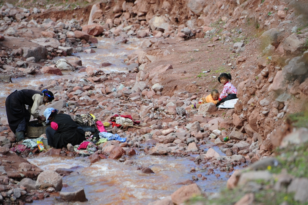 Women washing on a riversite near Lao,Tibet